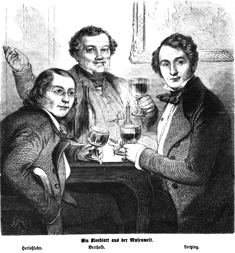 no caption